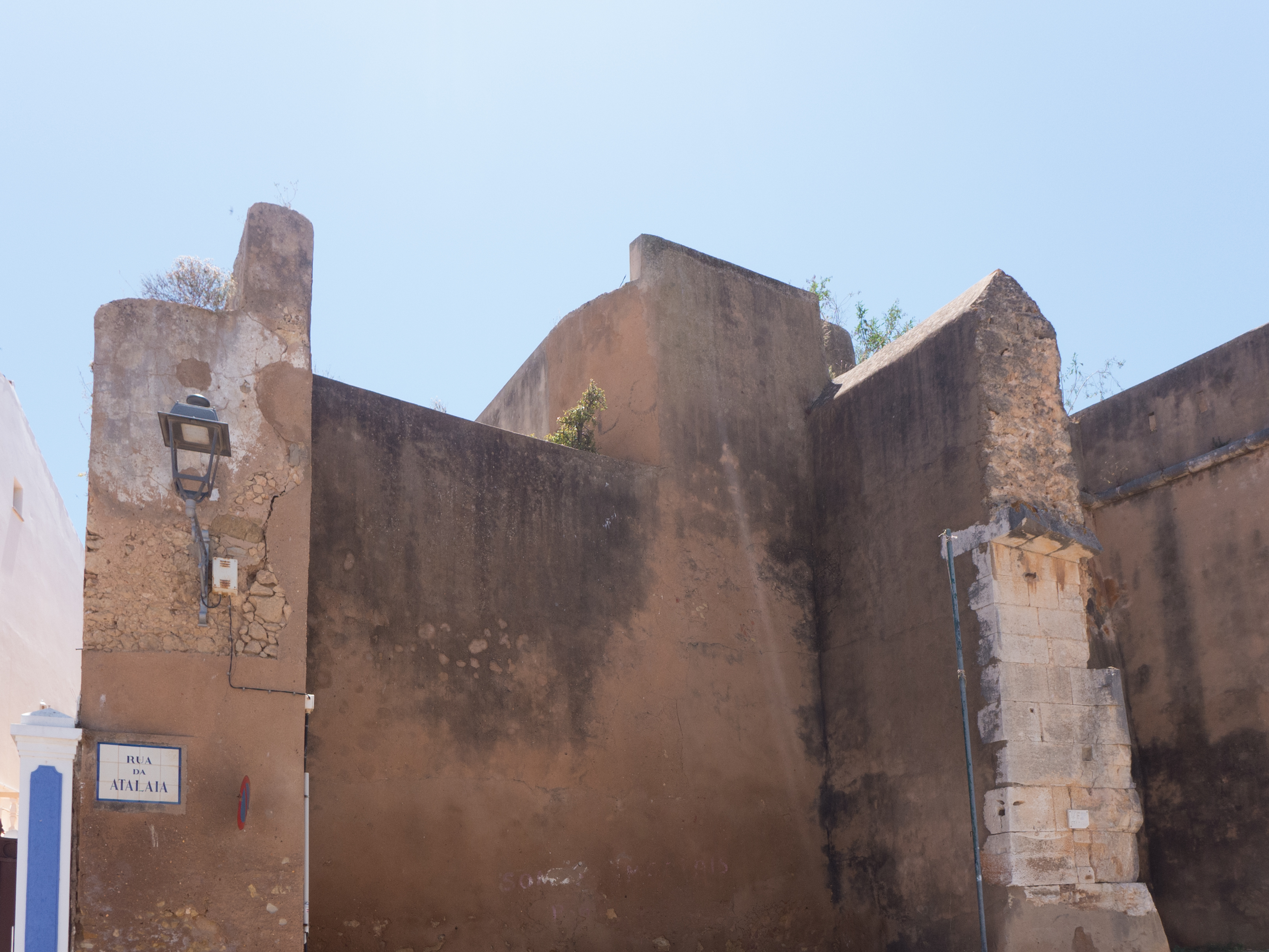 Lagos, Algarve, Portugal, May 2017